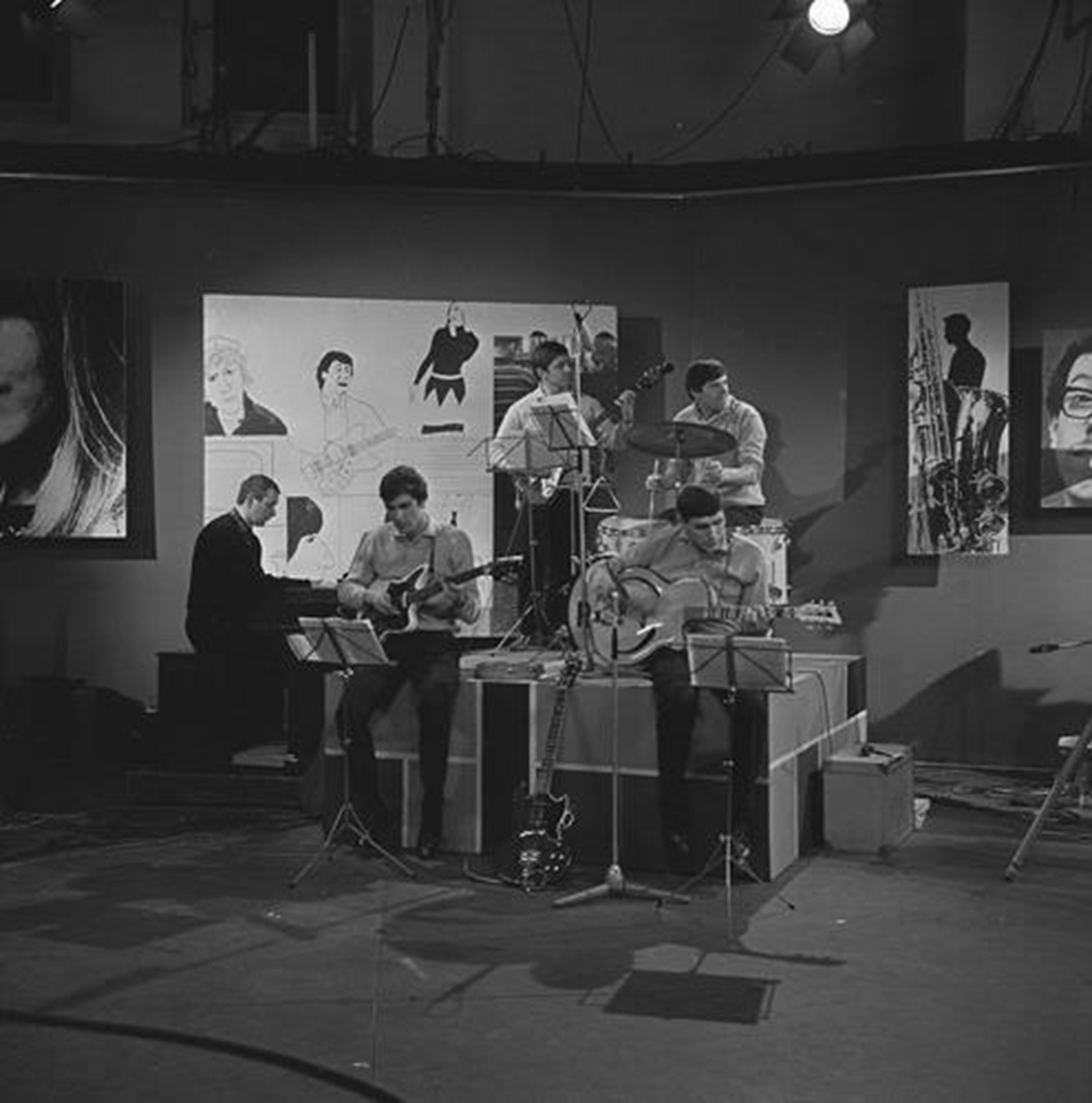 Dutch musical group The Riats (incl. drummer Louis Debij) in Dutch TV programme "Fanclub". Recording date 11 March 1966.